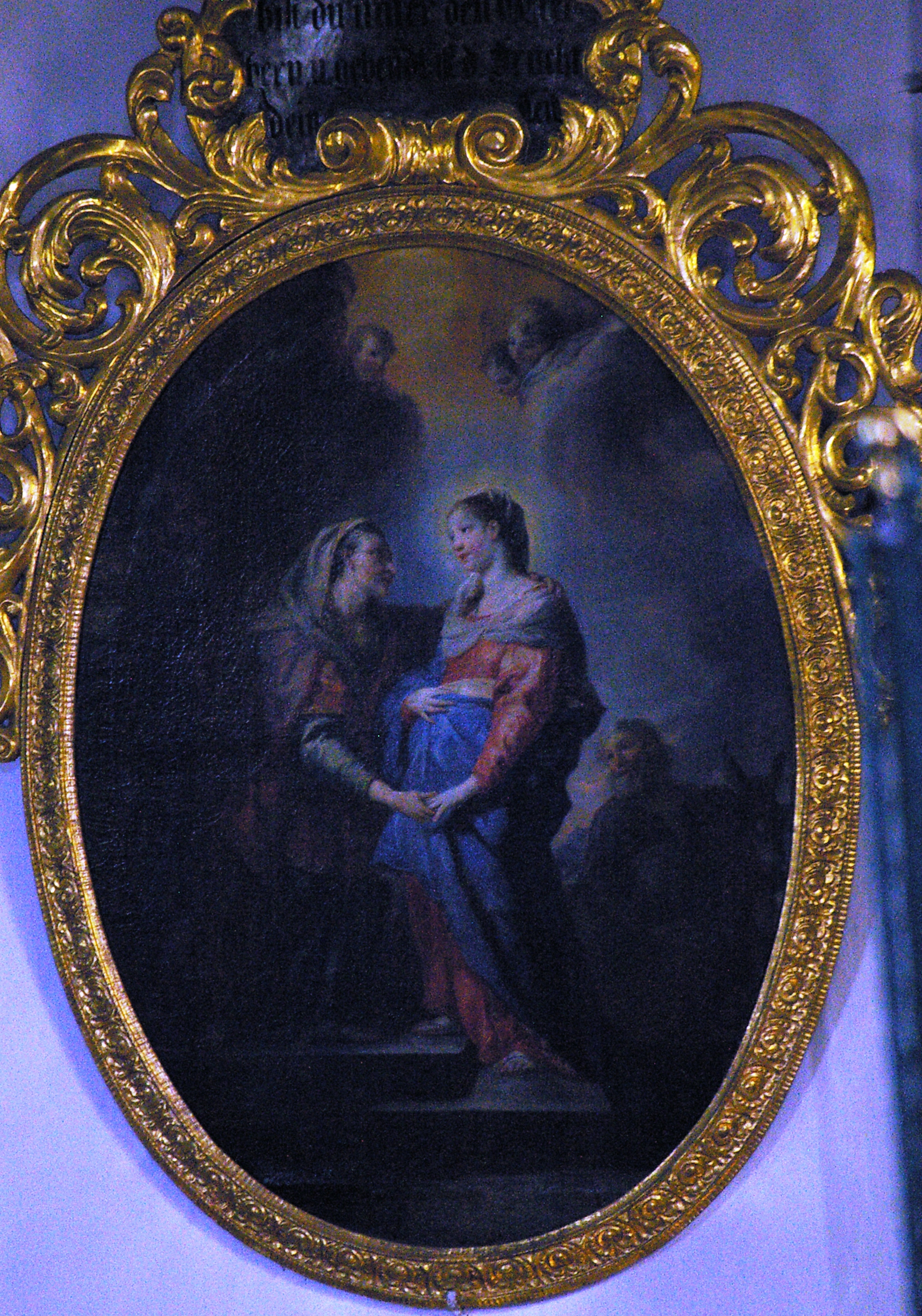 Maria Bühel